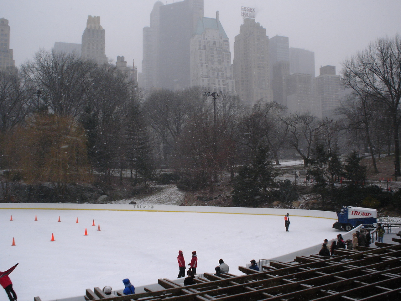 People skating in Central Park, New York (Manhattan) My own work.